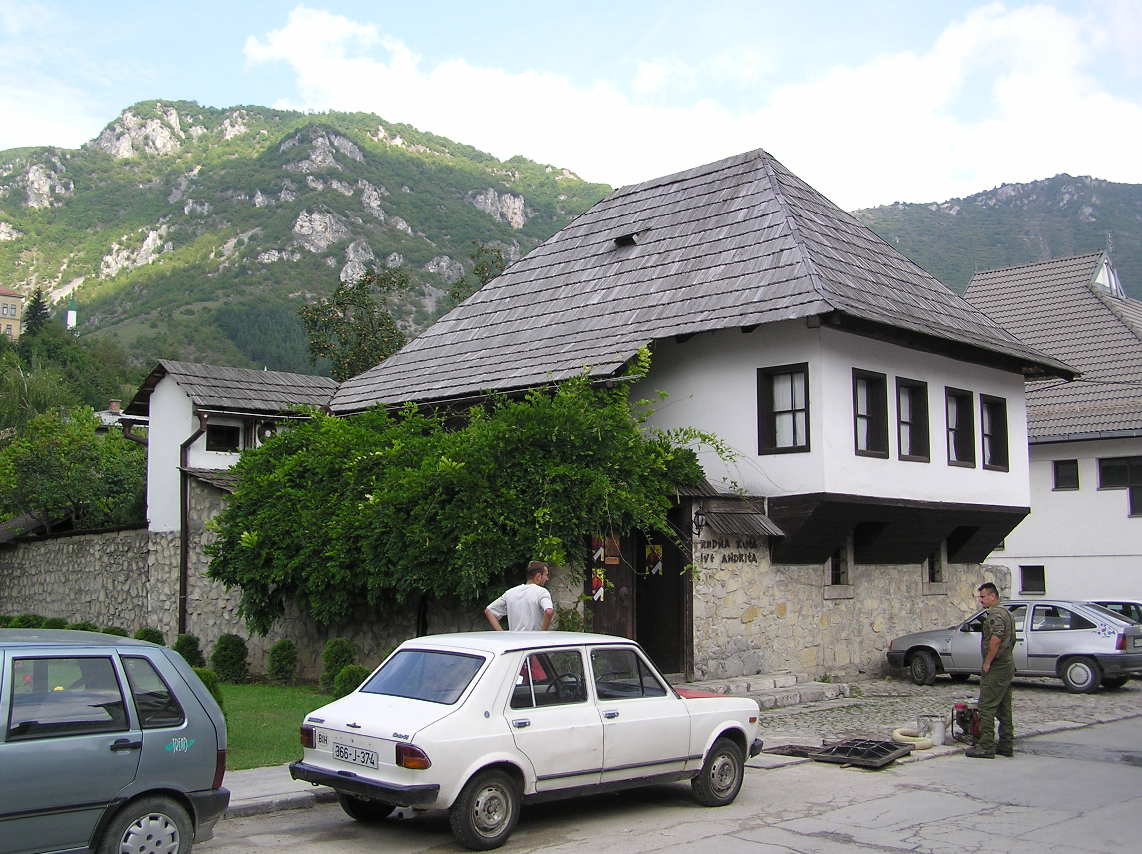 House of Ivo Andric Author: Mehmet E Yavuz